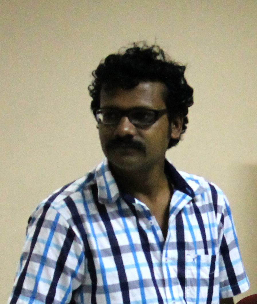 Susmesh Chandroth, Malayalam Writer